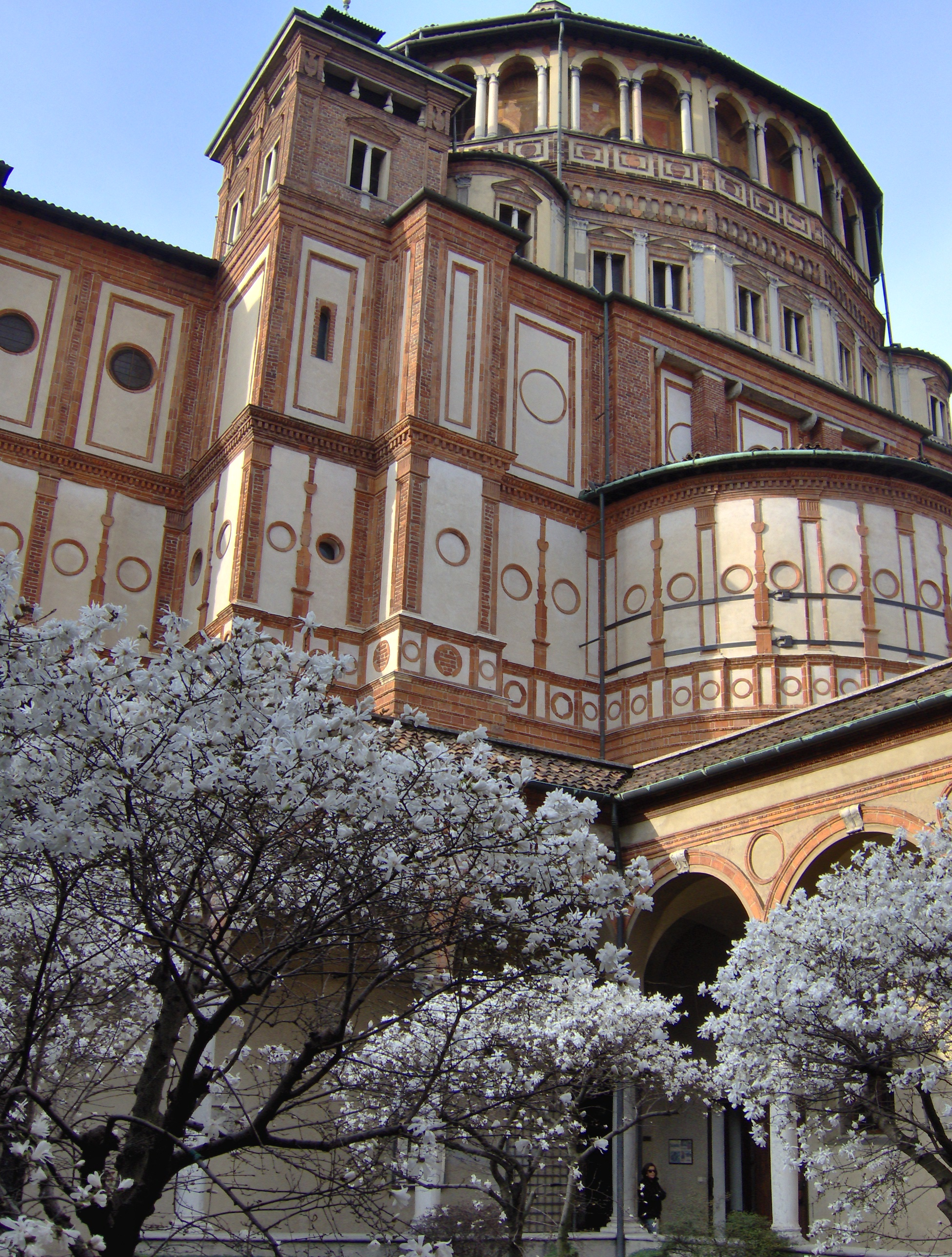 Church Santa Maria delle Grazie -view from cloister